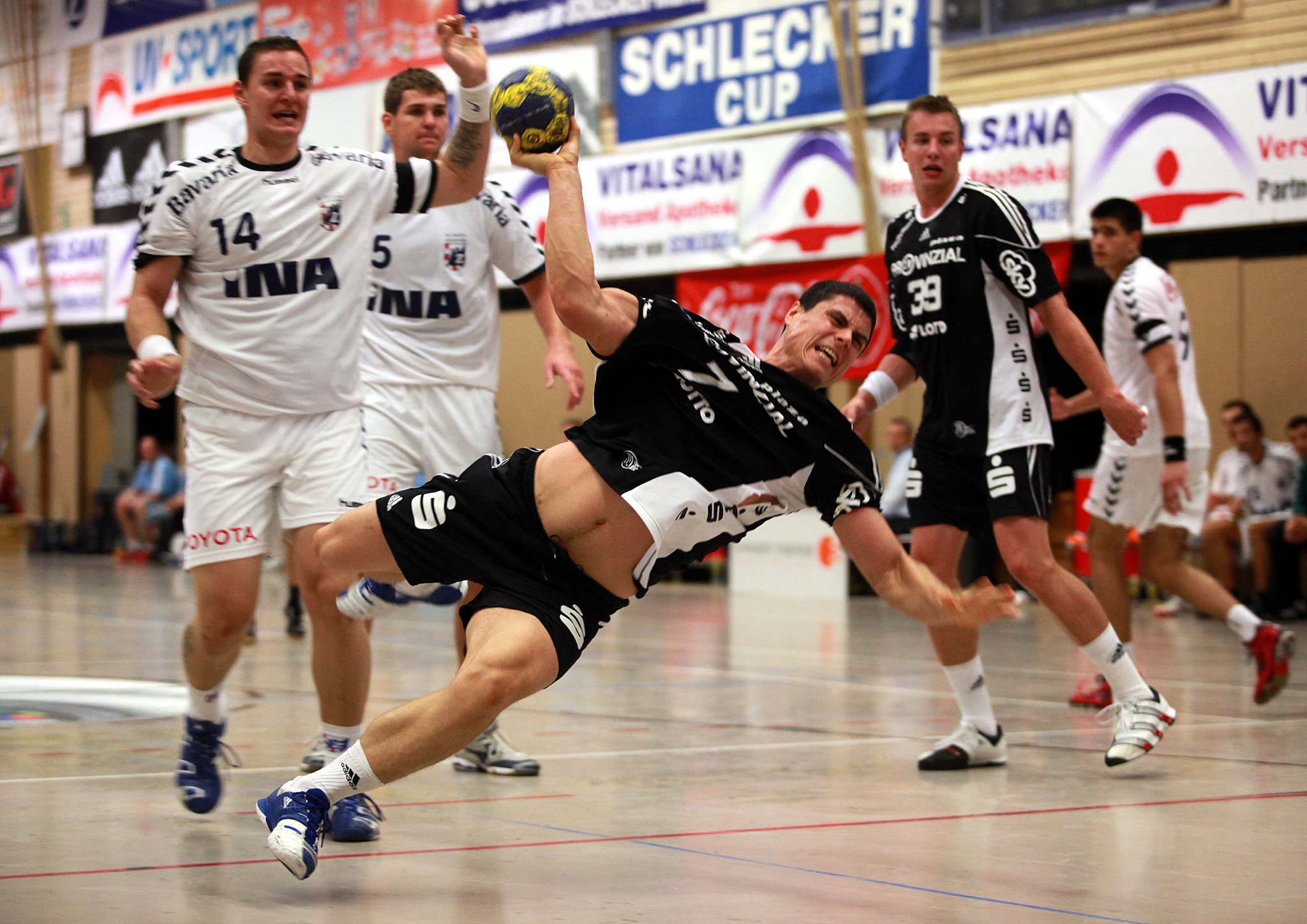 Milutin Dragićević, handball player from Serbia, on August 14th, 2010 in Ehingen (Germany), during the Schlecker Cup 2010.